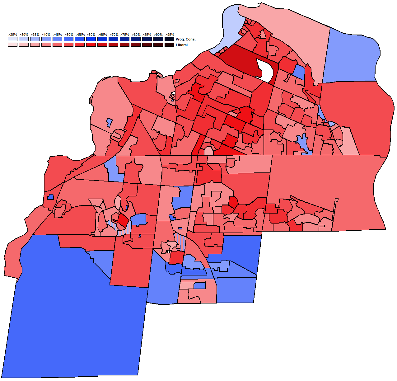 Map showing the winner of each polling division in Ottawa South in the Ontario general election, shaded by percentage of vote.